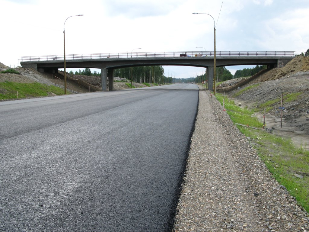 Highway 6 in Pyhaselka, Finland. New bridge under construction in Reijola interchange near city of Joensuu.